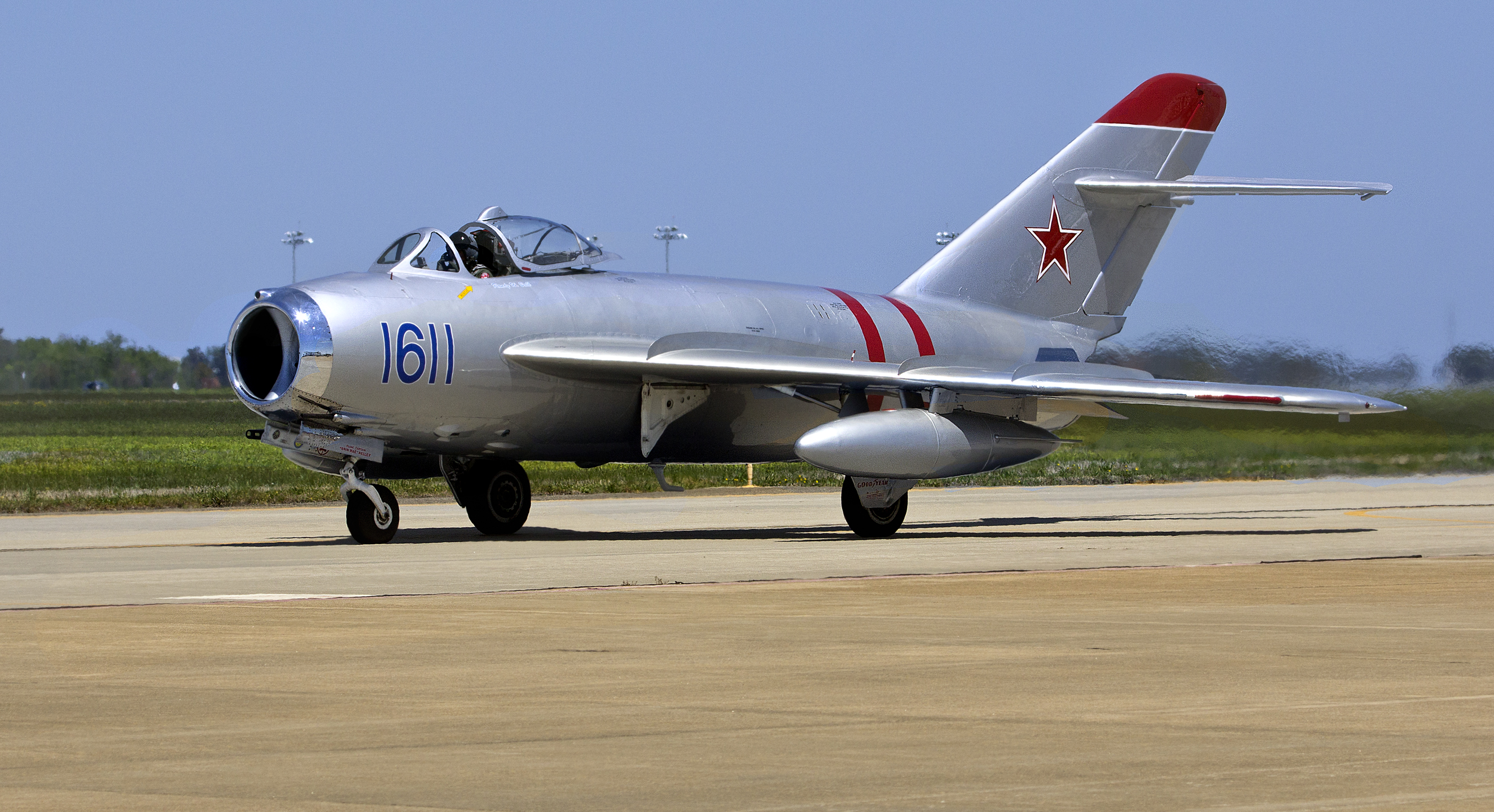 2016 Airpower over Hampton Roads Langley Air Show Virginia MIG 17